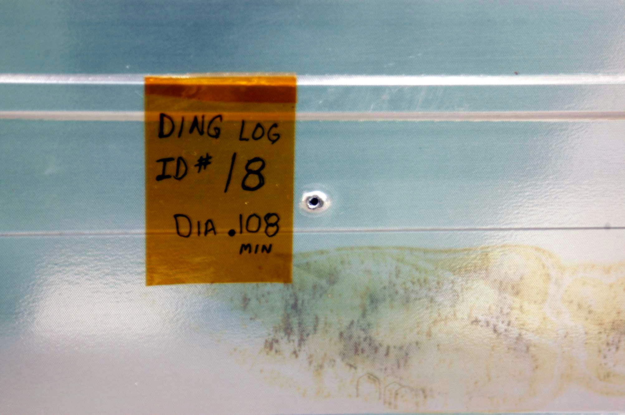 Micrometeoroid Orbital Debris impact on Atlantis' (STS-115) right hand payload bay door radiator